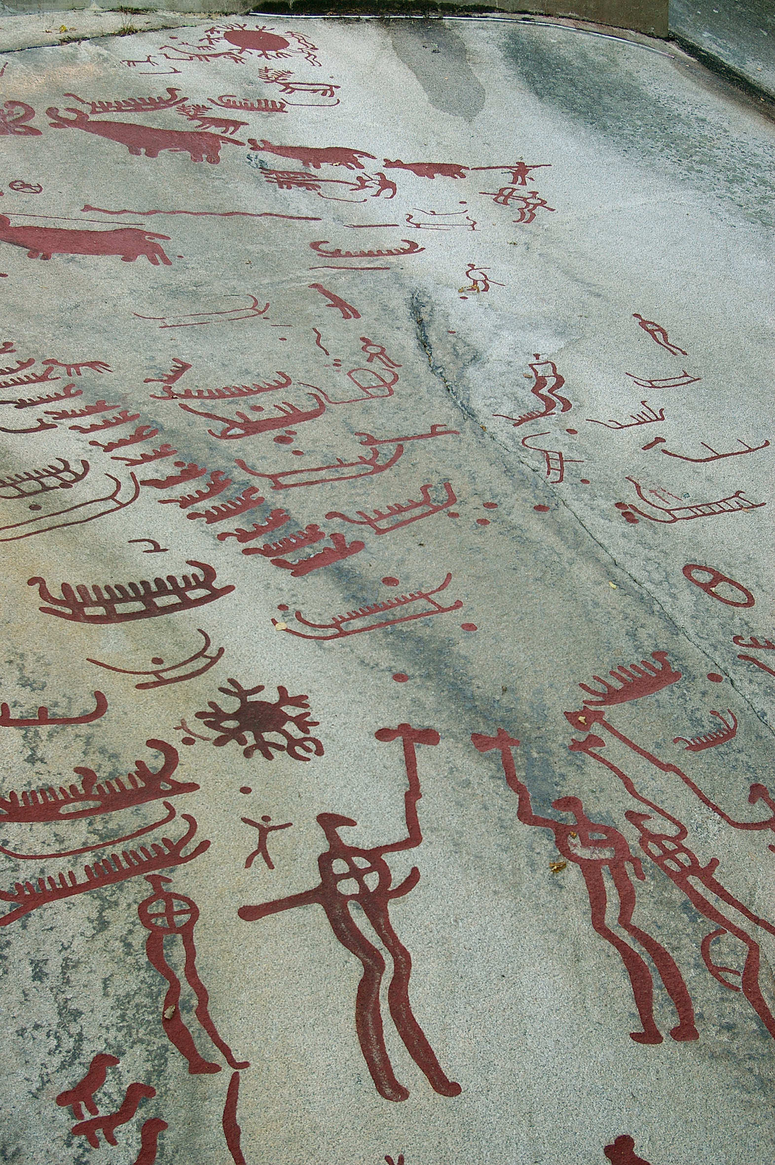 Rock carving area from the bronze age in the parish of Tanum, Bohuslän, a part of Sweden.